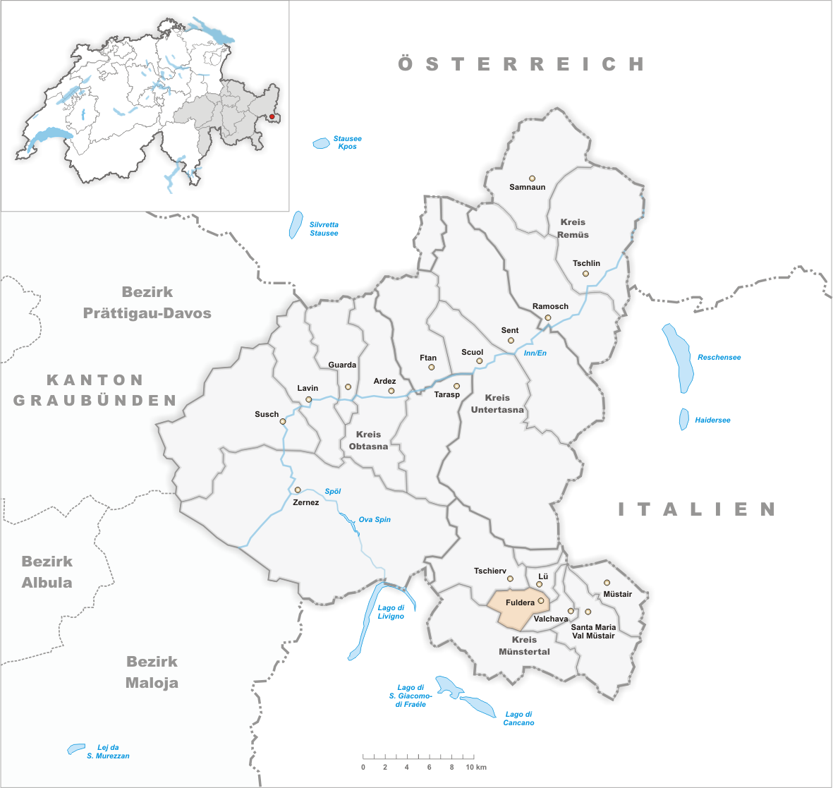 Municipality Fuldera